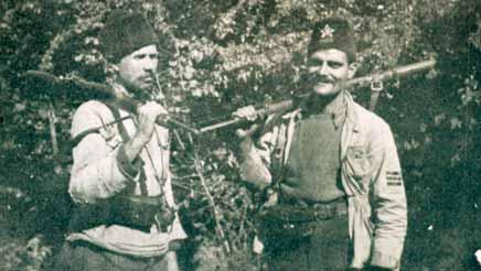 Prvoborcite Mice Kozar i Trajko Boškovski-Tarcan od Prilepskiot narodnoosloboditelen partizanski odred "Goce Delčev" (1941)